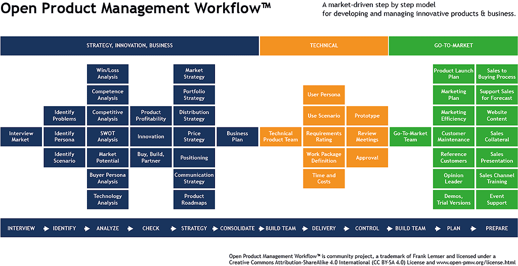 The Open Product Management Workflow™ is a market-driven step by step model for developing and managing innovative products & business.